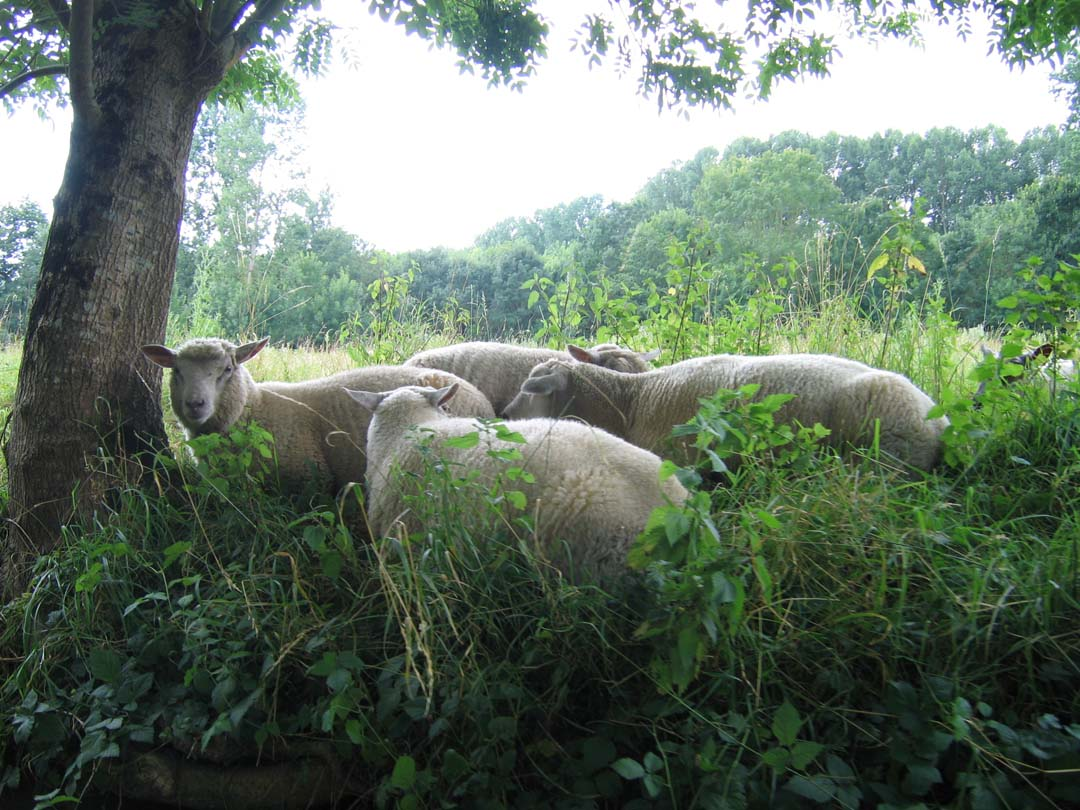 Sheeps in the Marais Poitevin, France.